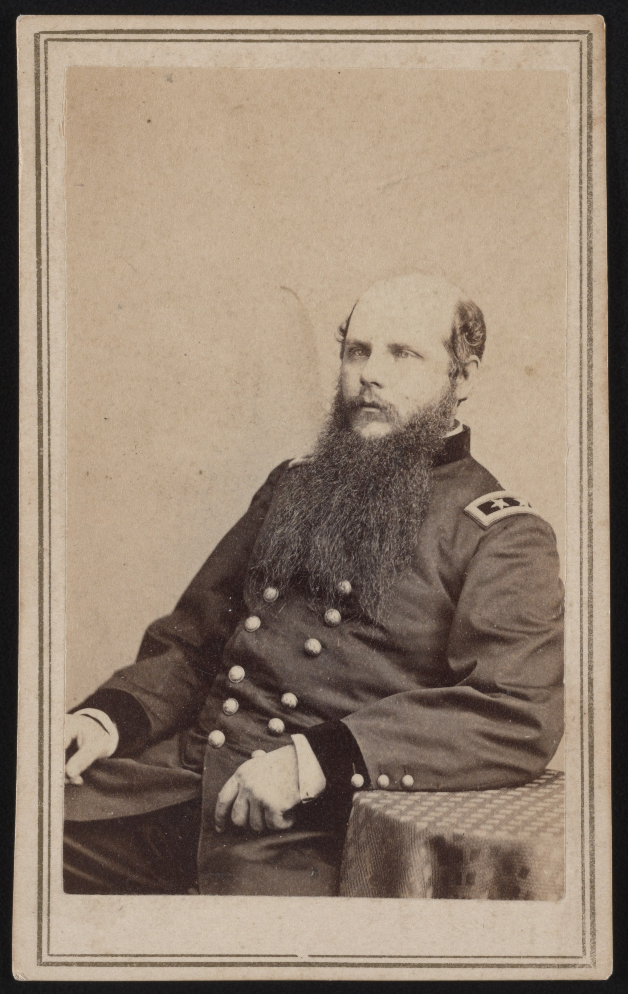 Title: Major General John McAllister Schofield of 1st Missouri Infantry Regiment in uniform] / Bogardus, photographer, 363 Broadway, Cor. Franklin St., New York Abstract/medium: 1 photograph : albumen print on card mount ; mount 11 x 7 cm (carte de visite format)